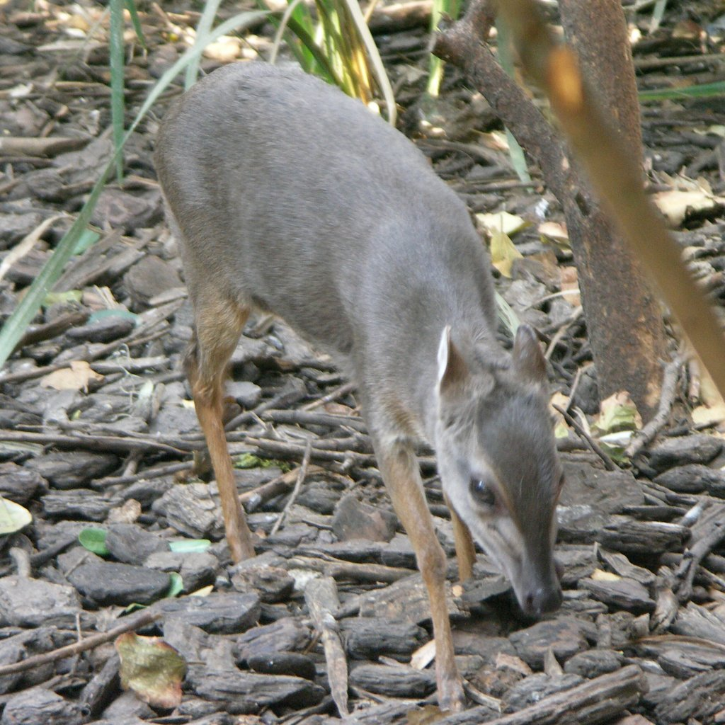 Blue Duiker, Johannesburg.